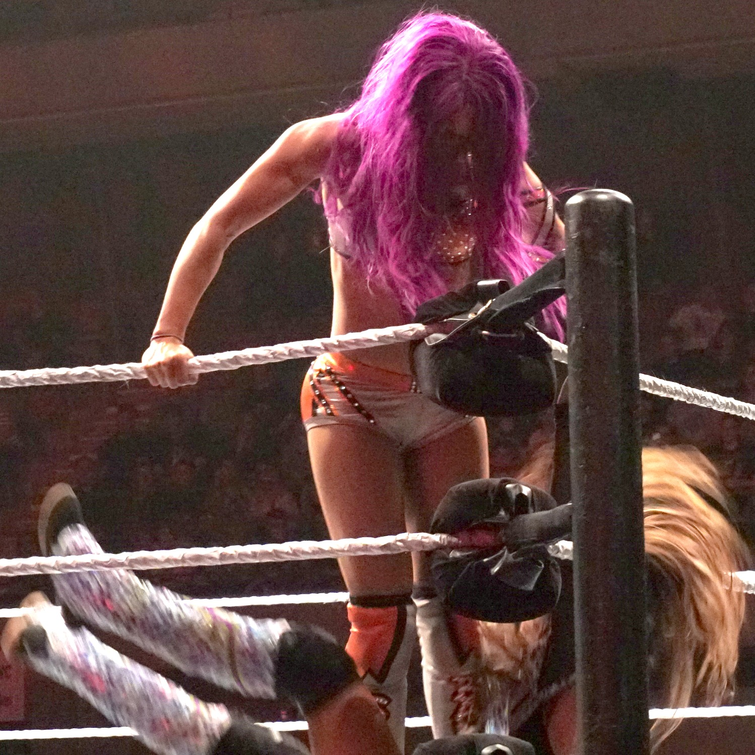 Sasha Banks performing her signature doublé knee drop on Alicia Fox during a WWE live event in May 12, 2017.